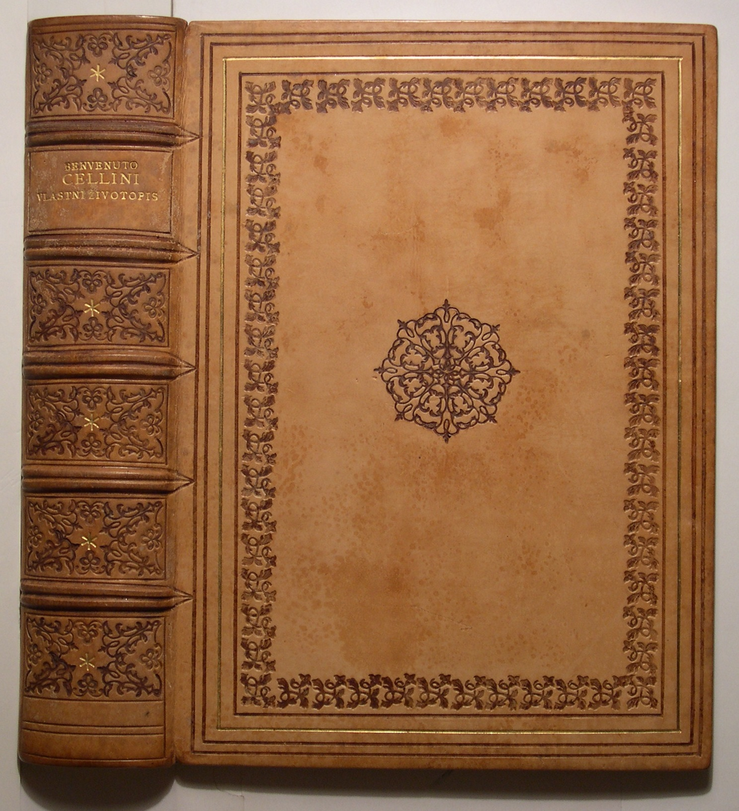 Full-leather-binding, Jenda Rajman